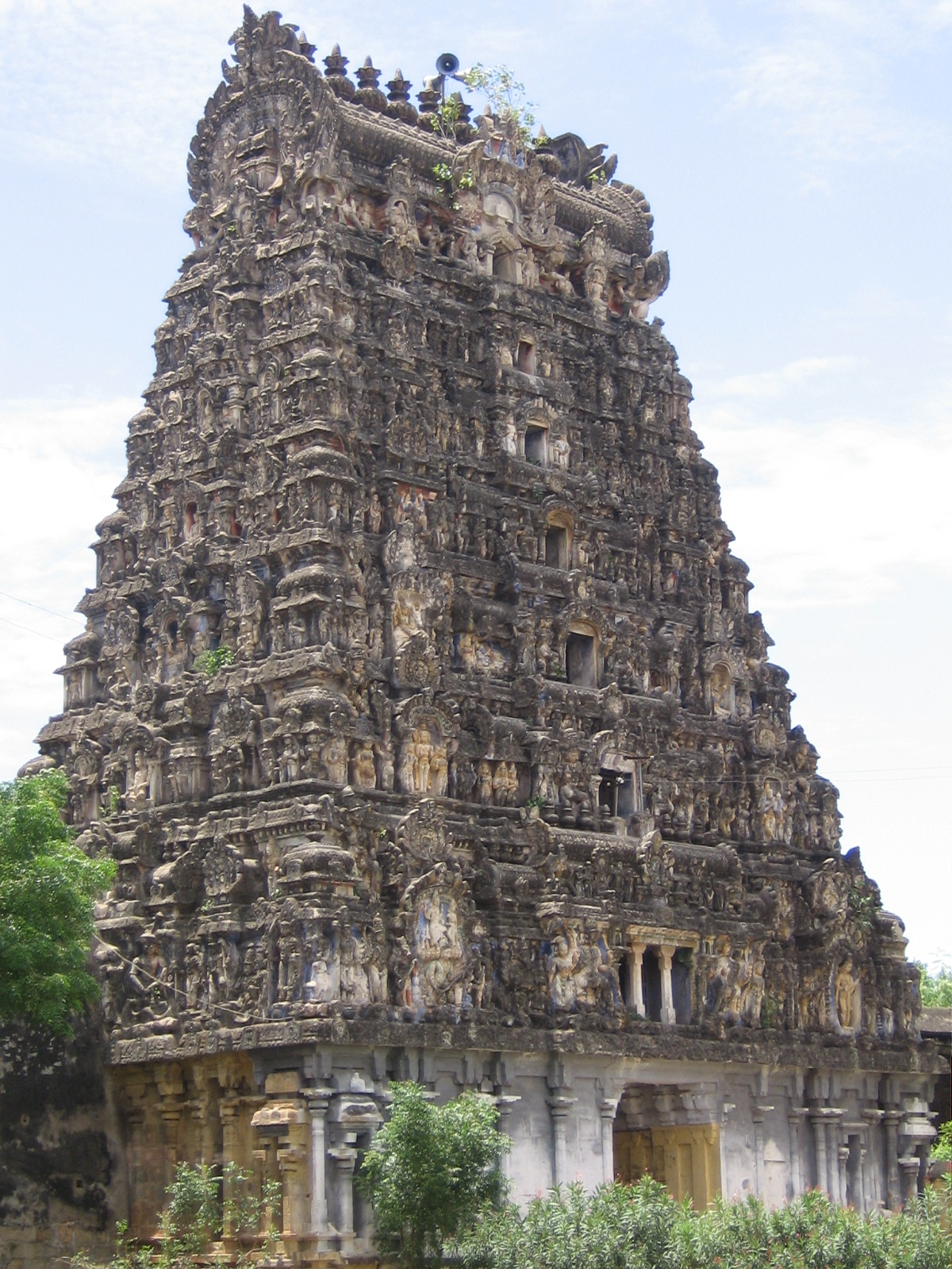 to capture the intricate work on the stone; Aiyarappar temple